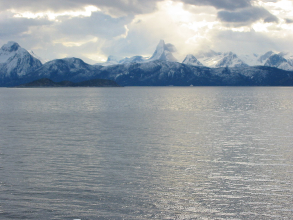 Not Valhalla, but the mountains in Tysfjord seen from north - from the ferry between Bognes and Lødingen. Stetind is the most prominent mountain in the center of the picture. There is a smaller fjord branch going to the base of Stetind.